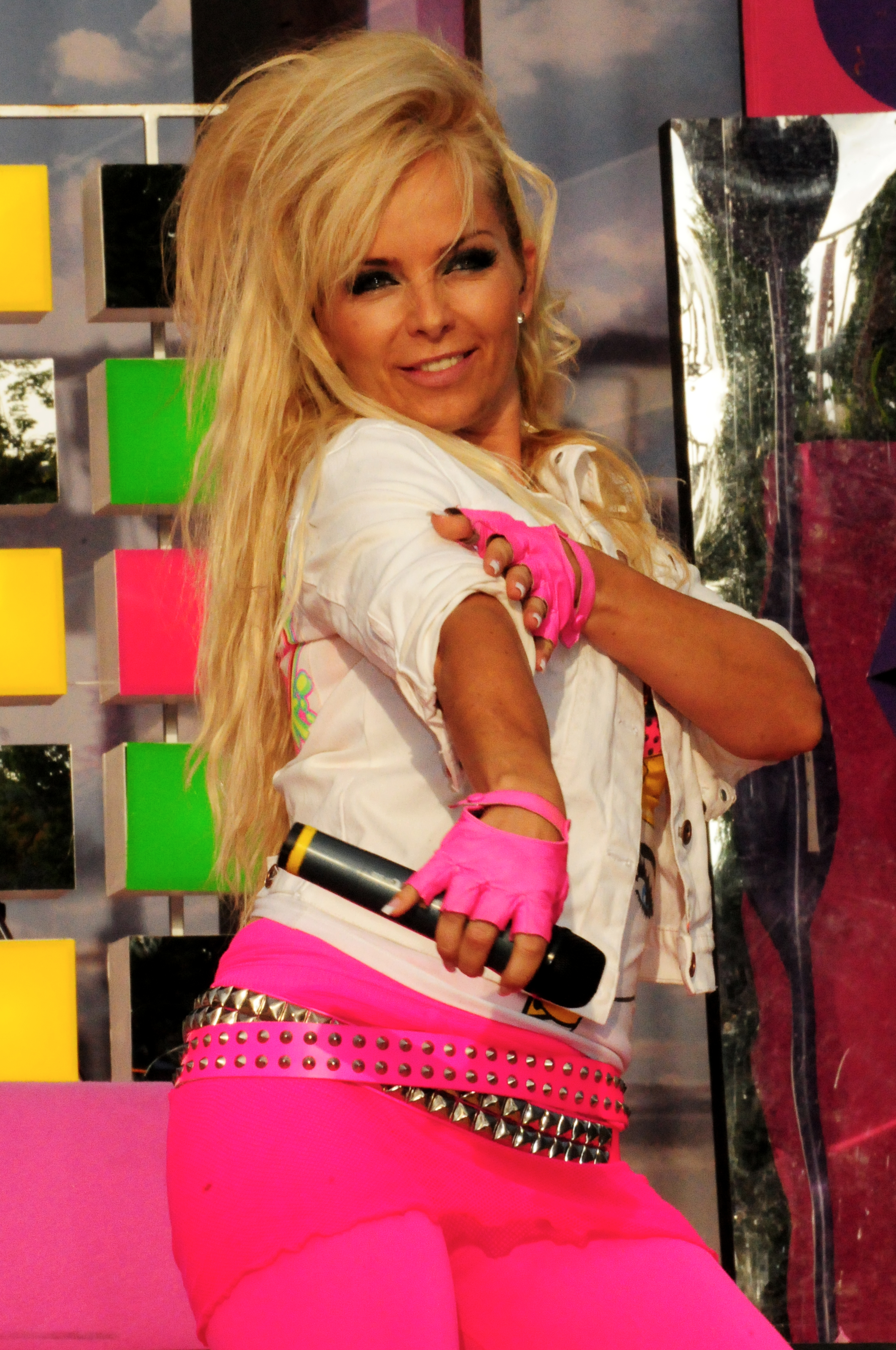 Alcazar at Sommarkrysset, Gröna Lund (Stockholm)